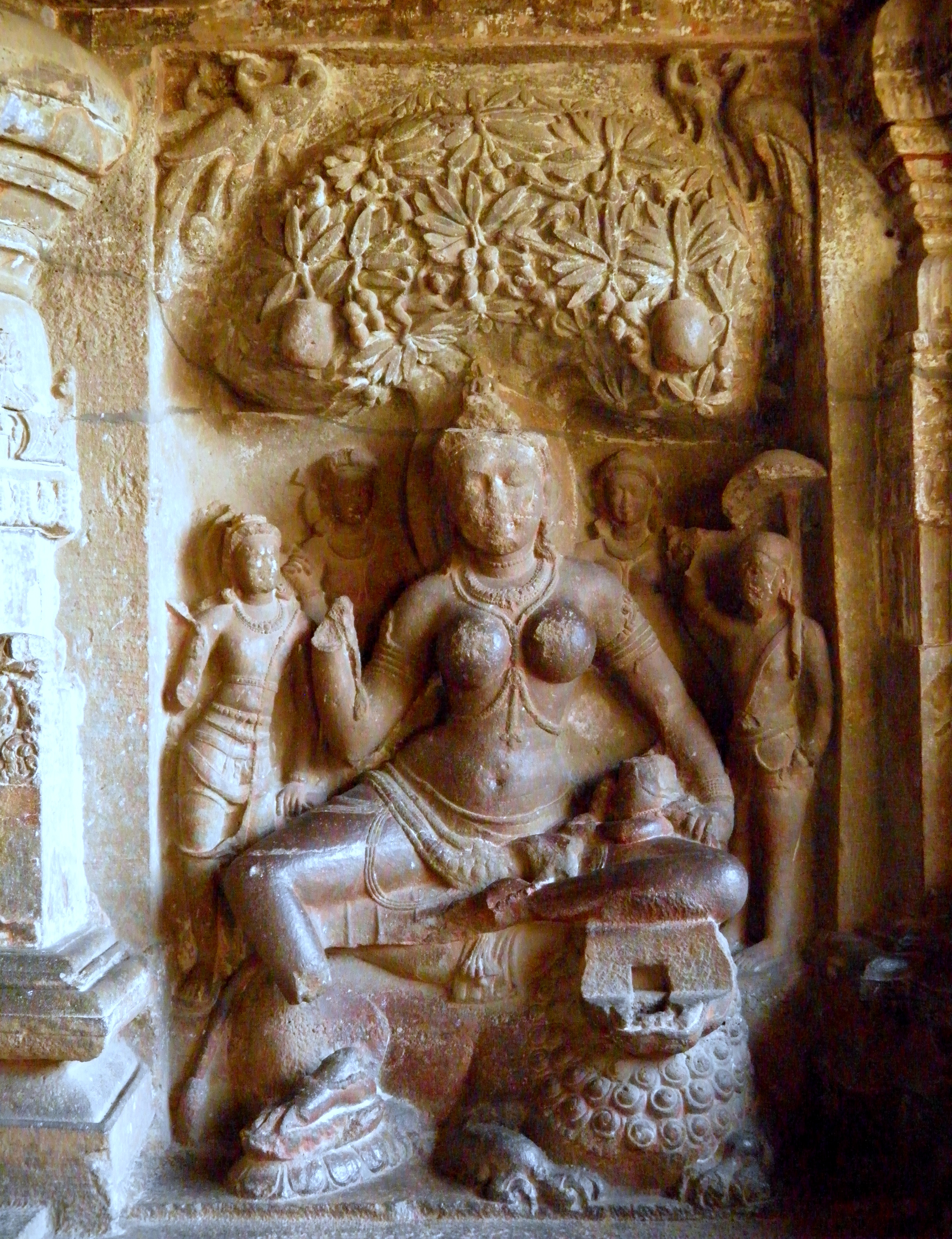 Ellora Caves